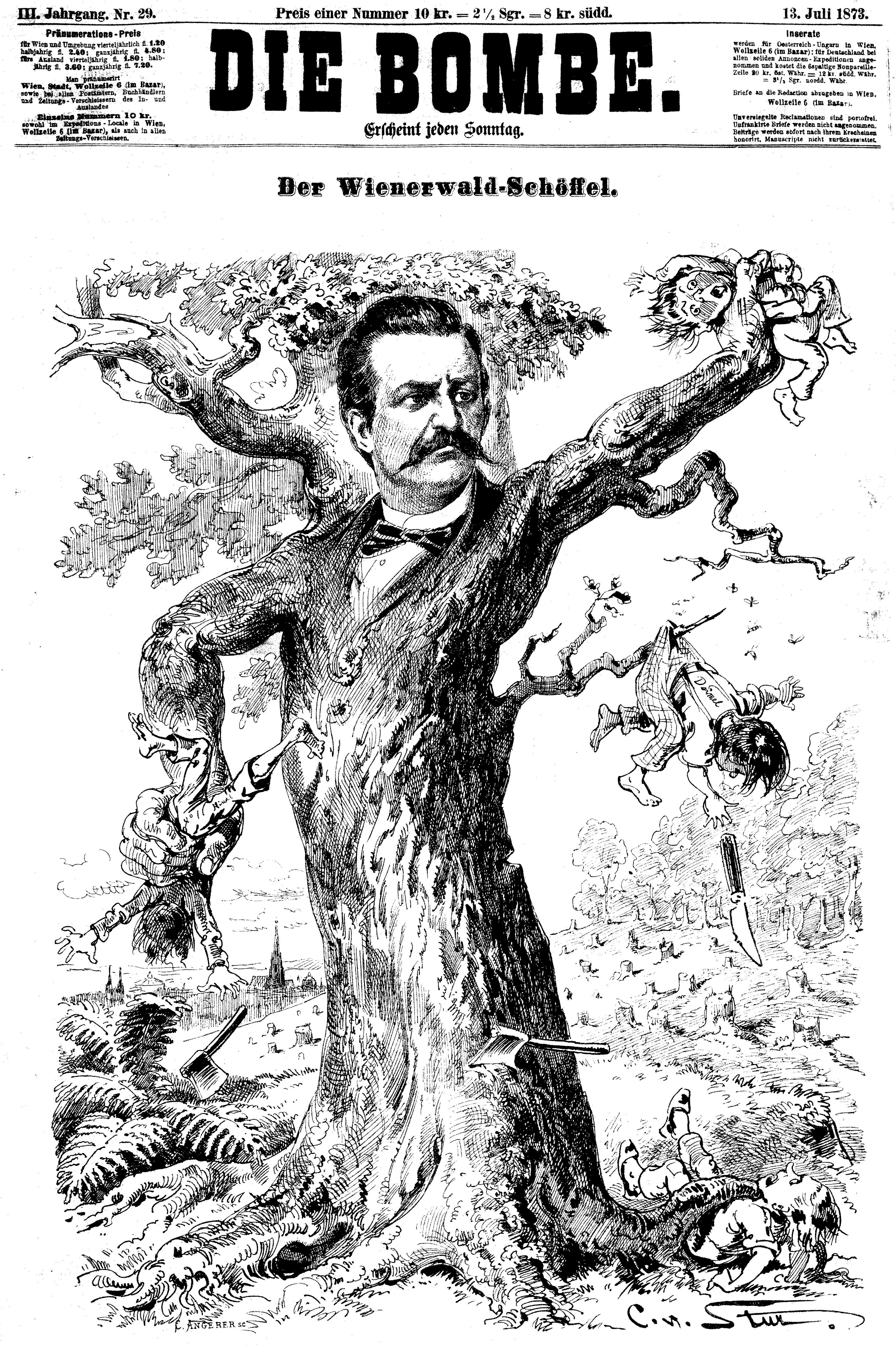 Caricature of Josef Schöffel, "saviour of the Vienna Woods"